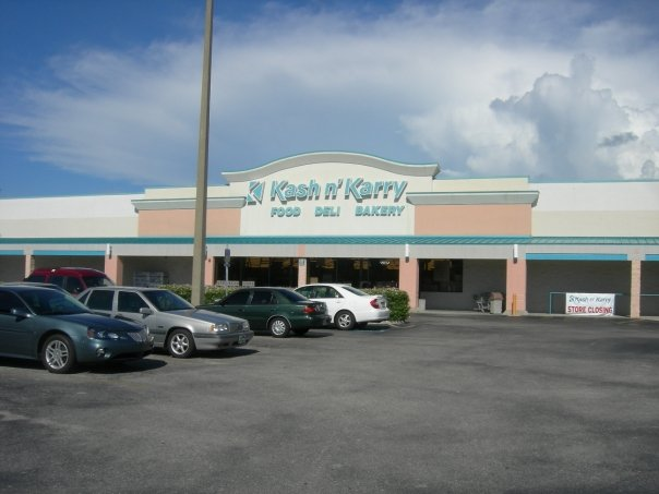 Kash N' Karry store 1981 at 6015 26th Street West in Bradenton, Florida. The store has since closed and replaced with another Sweetbay Supermarket nearby.